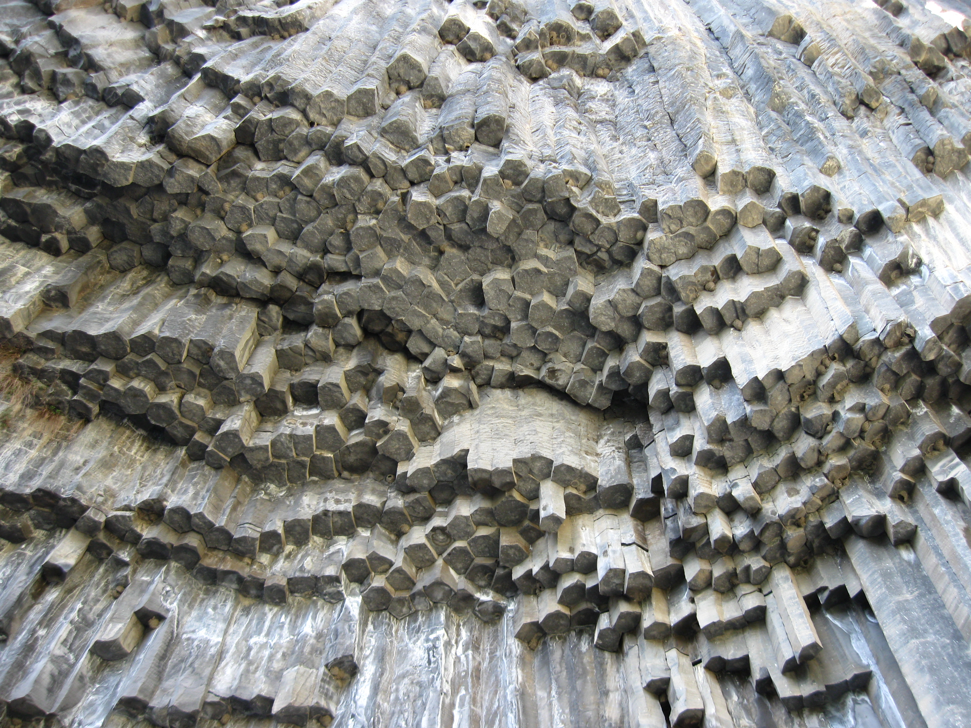 "Symphony of the Stones" basalt column formations along the cliff side in Garni Gorge, Armenia.